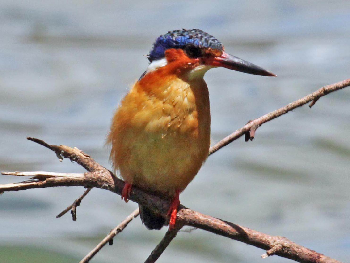 Malagasy Kingfisher (Alcedo vintsioides) - Parc Tsarasaotra, an open bird sanctury in Antananarivo, Madagascar.